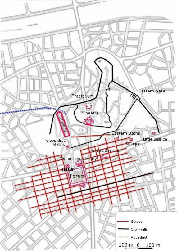 A plan of Roman Plovdiv(Phillipopolis, Trimontium) superimposed on a plan of the central part of the modern city.